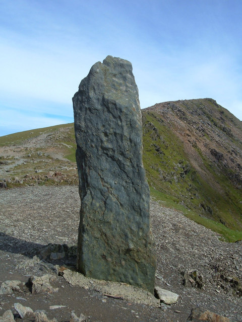 Stone Obelisk, Snowdon Erected by the National Park Authority to mark the start of the descent of the Pyg Track off Snowdon's north ridge.